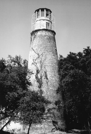 Little Cumberland Island Lighthouse — on Little Cumberland Island, adjacent to Cumberland Island on the southeast coast of Georgia. On the National Register of Historic Places in Camden County, Georgia. USCG image, cropped.